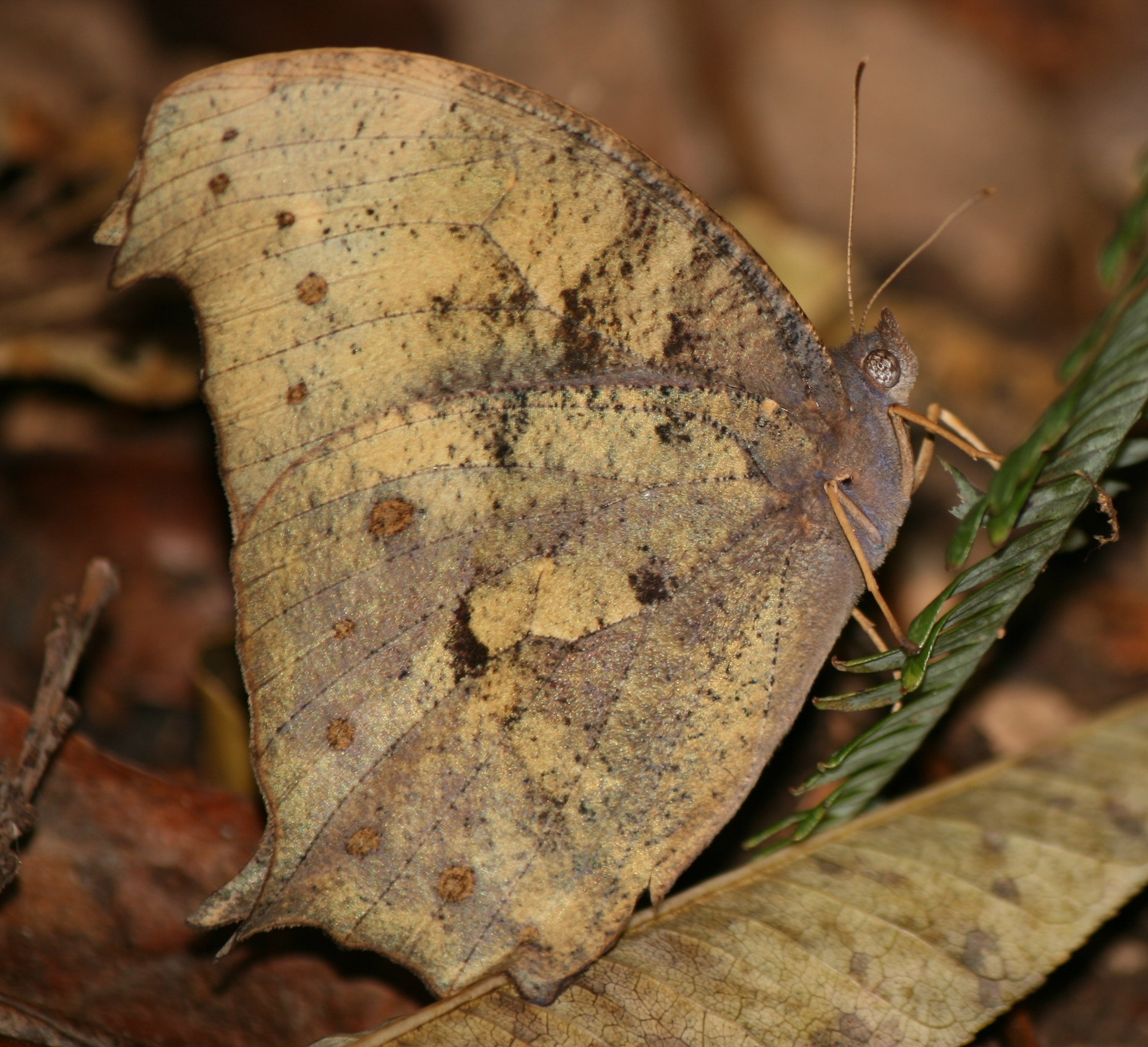 Melanitis phedima, male, in Mount Tado of Yōrō Mountains, Japan.